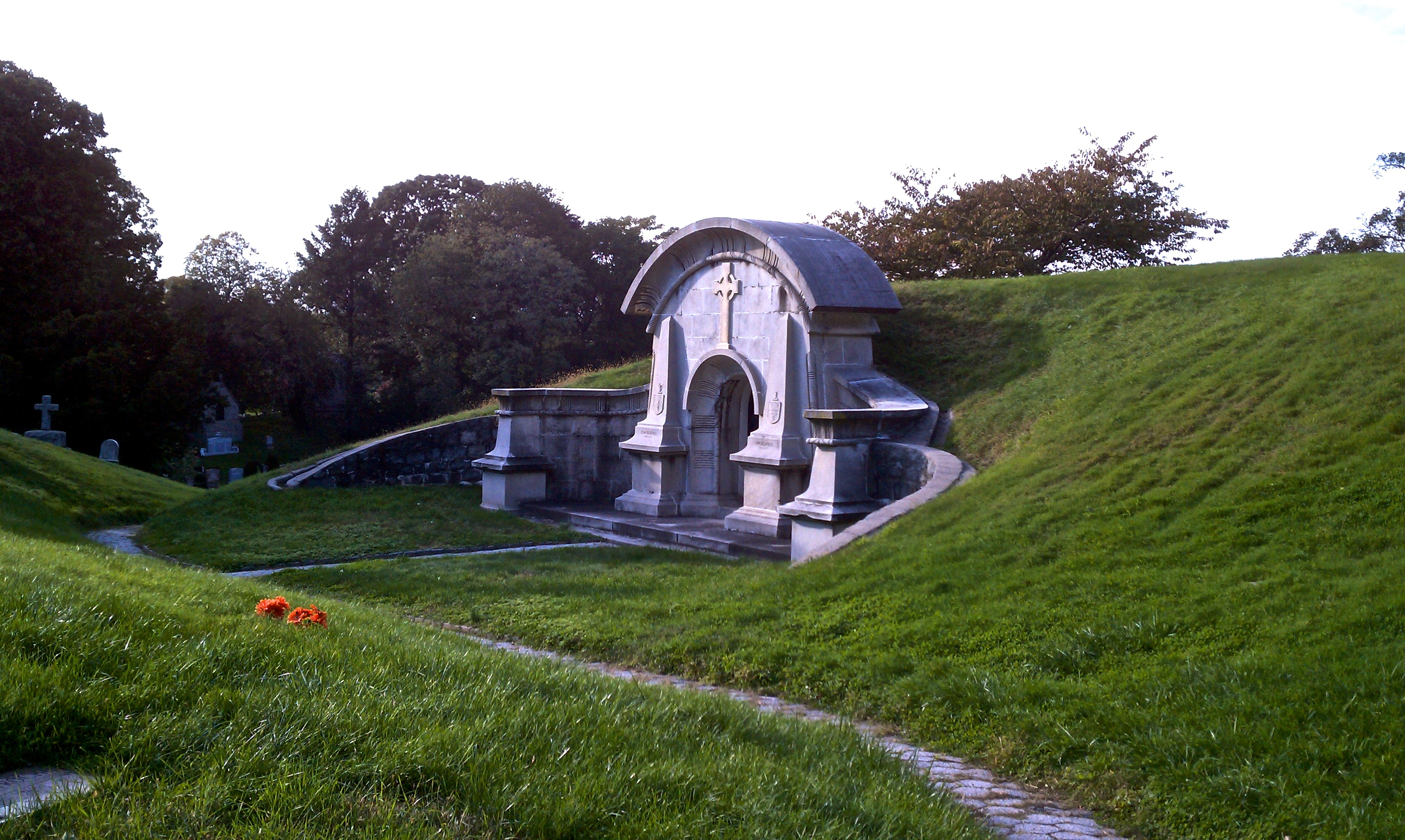 Delafield Family Mausoleum FROM AFAR